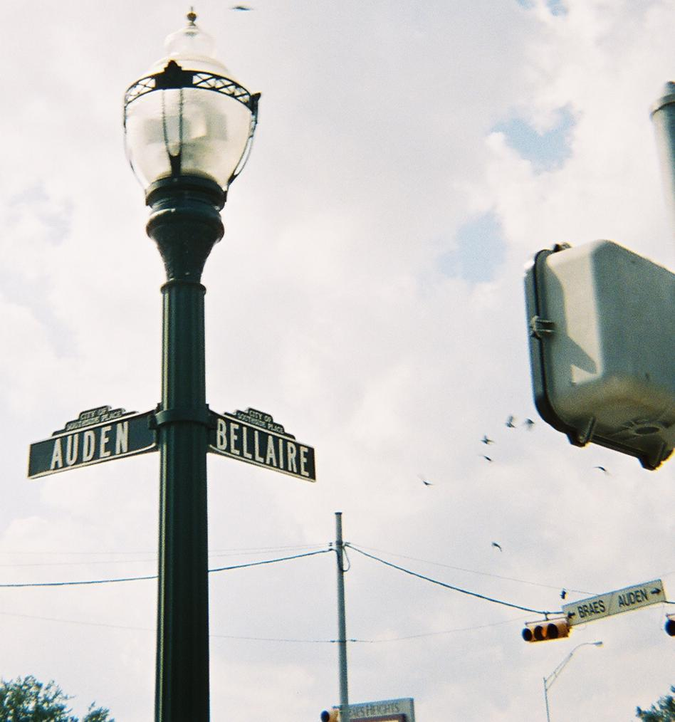 A picture of a Southside Place street light. I, WhisperToMe, took the picture. I release it into the public domain. This work has been released into the public domain by its author, WhisperToMe. This applies worldwide. In some countries this may not be legally possible; if so: WhisperToMe grants anyone the right to use this work for any purpose, without any conditions, unless such conditions are required by law.